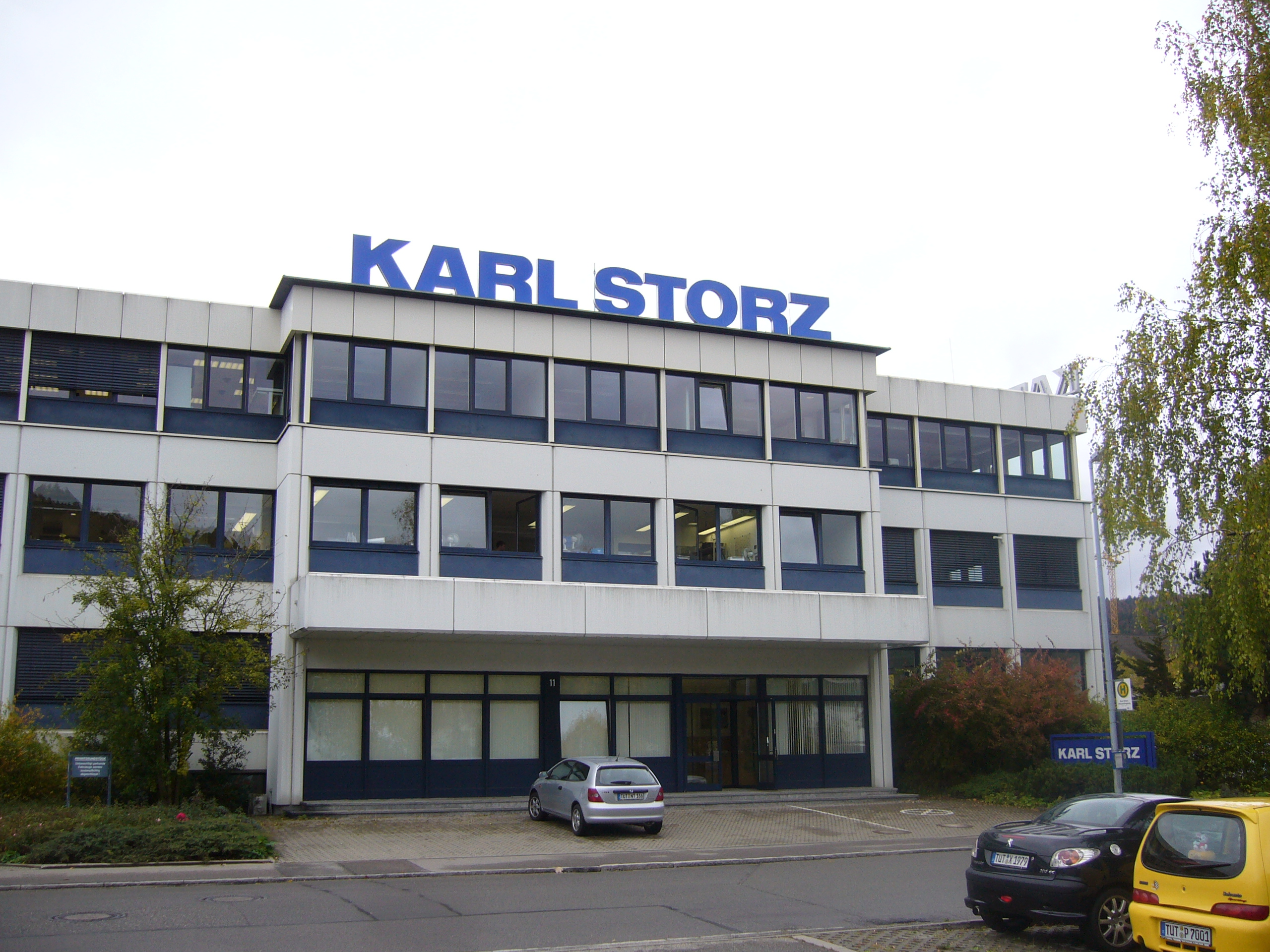 Headquarters of Karl Storz Endoskope in Tuttlingen, Germany